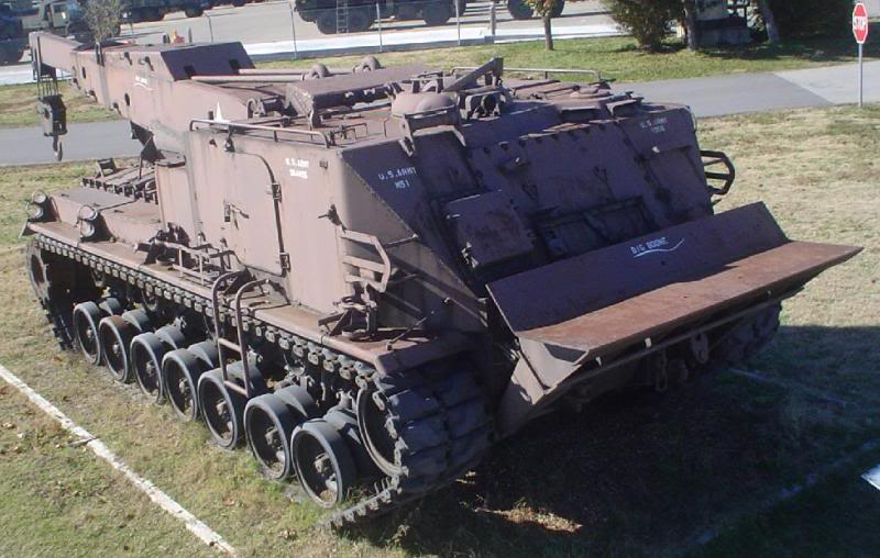 M51 Heavy recovery vehicle. Used to tow the M103 heavy tank. Thanks to my buddy, JoeD